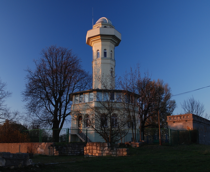 Astronomical Observatory, University of Zielona Góra, Poland.